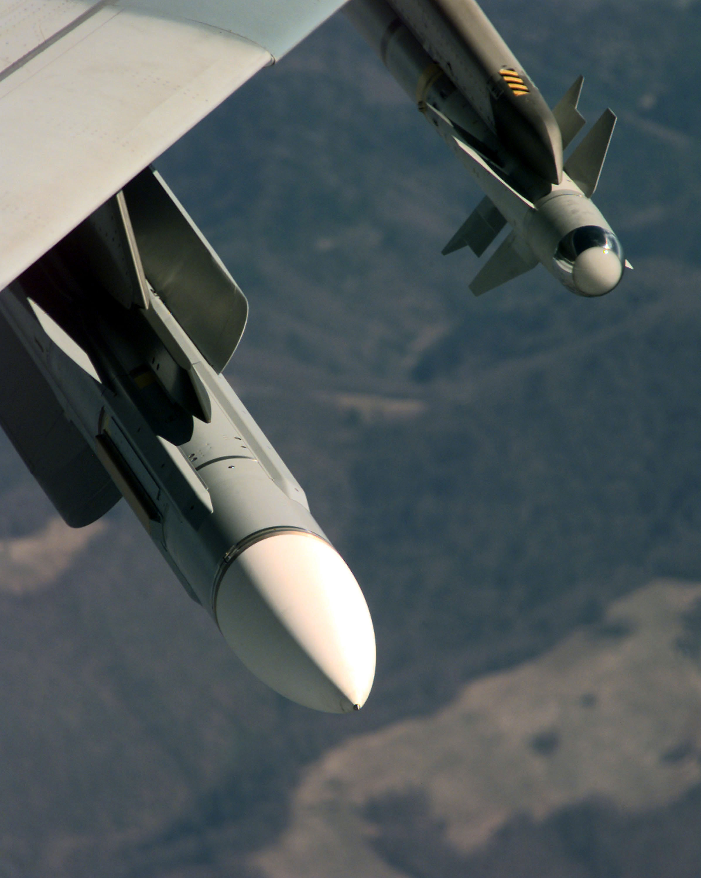 Close-up of the air-to-air missiles carried by a French Air Force Mirage 2000C that was performing a Combat Patrol mission while participating in NATO operation "Allied Force" on 15 April 1999. The missiles are the Super 350 (left) and the R550 Magic 2 air-to-air missile.